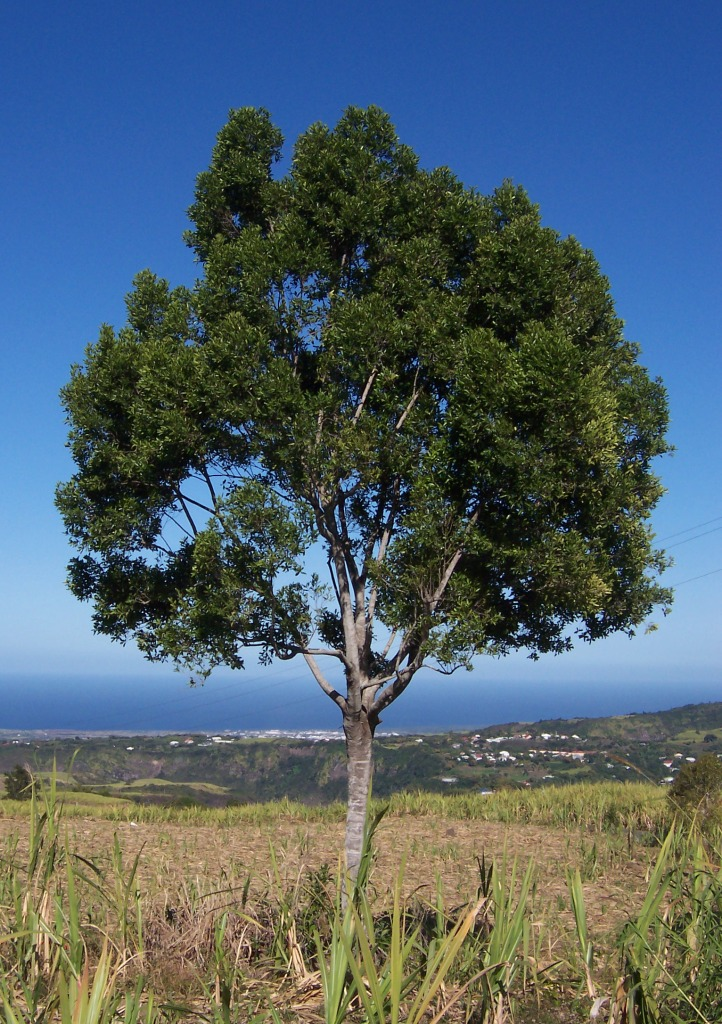 (Cassine orientalis syn. Elaeodendron orientale) - young tree, Réunion island